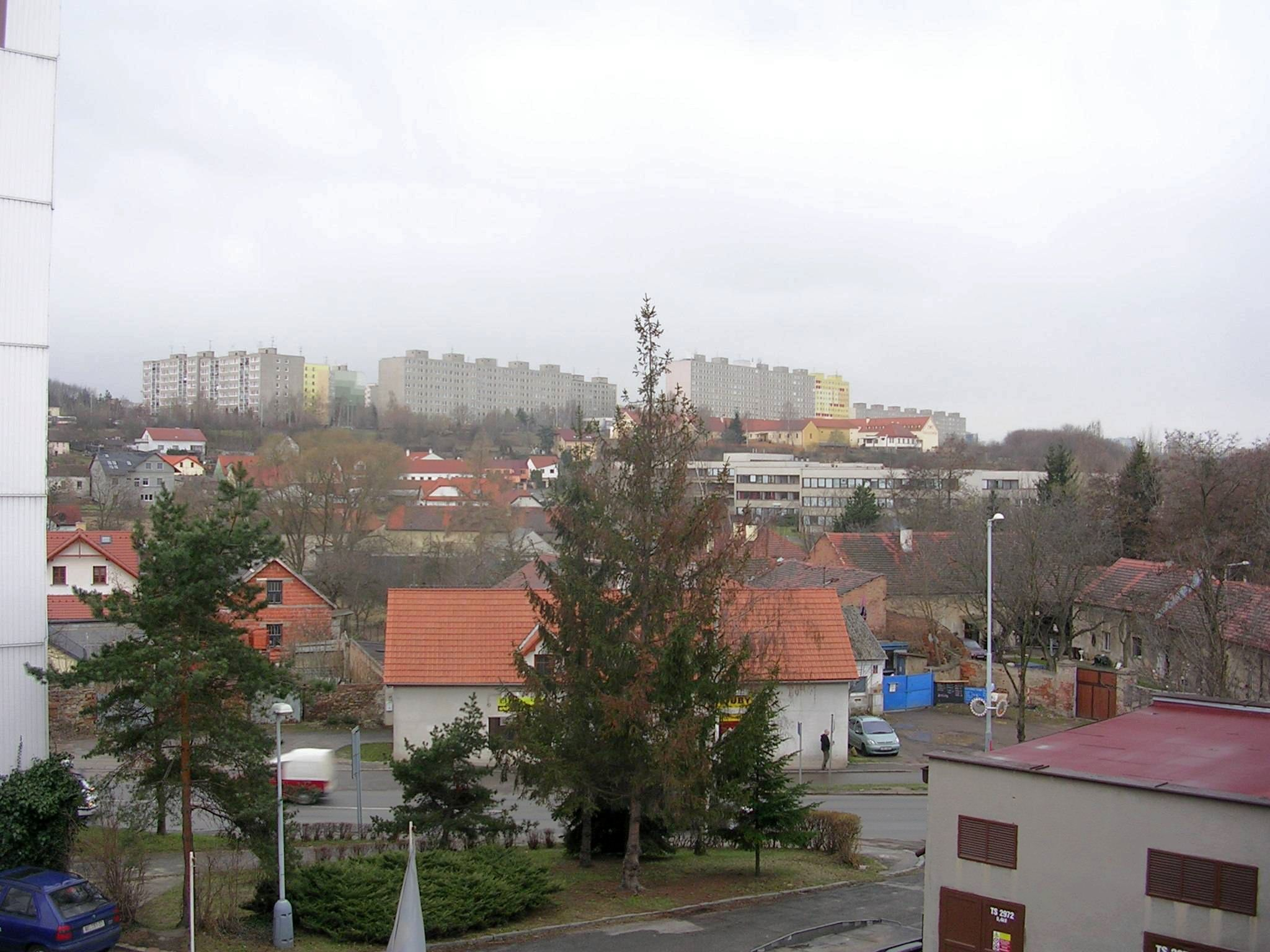 Hostivař, Prague, the Czech Republic. - Google Maps - Google Earth